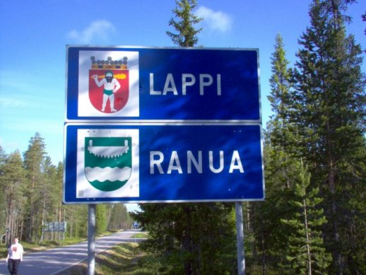 Municipal border sign of Ranua, Finland and regional border sign of Lapland